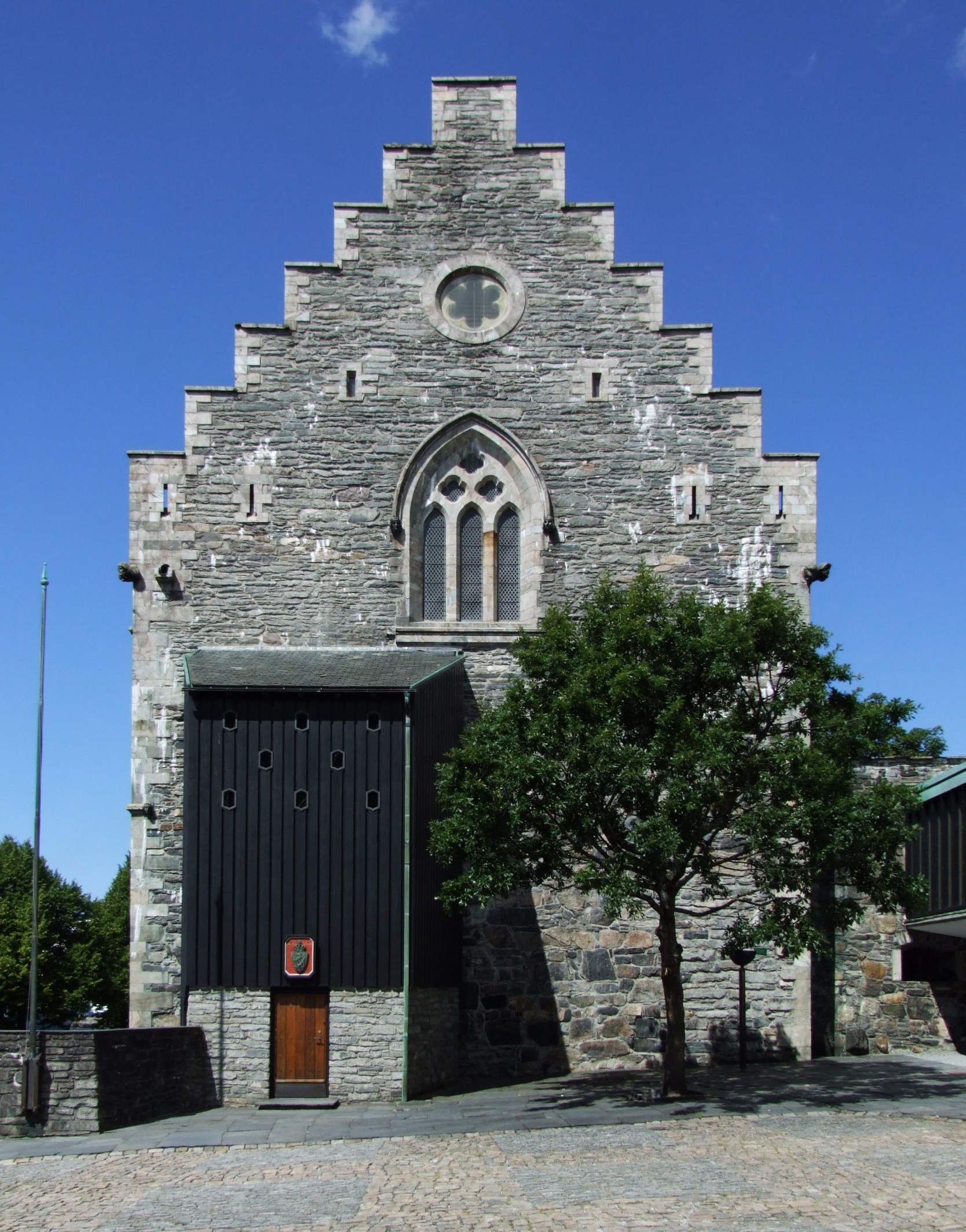 Haakon's Hall in Bergenhus fortress